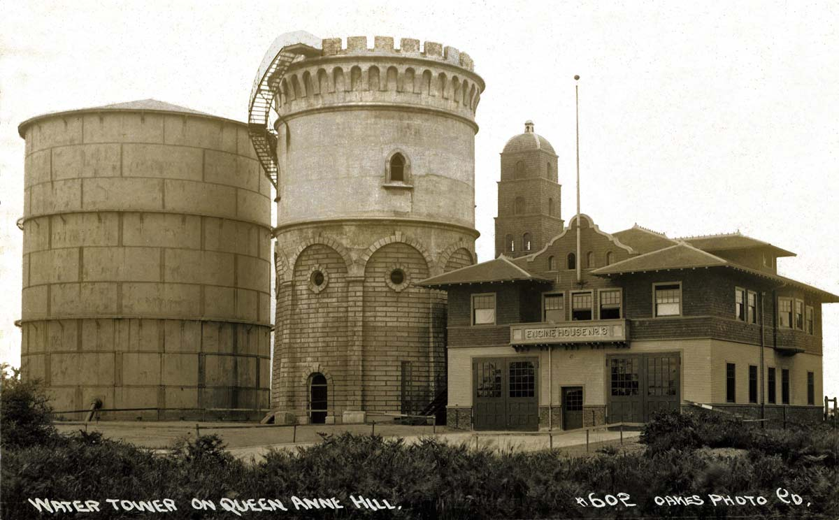 The old water tower atop Queen Anne Hill in Seattle (near the top of the "Counterbalance" route up the hill on Queen Anne Avenue). Although it had city landmark status, it was replaced in the early 2000s. Also the old Fire Station Number 8.